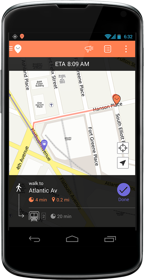 Moovit Navigate 3.0